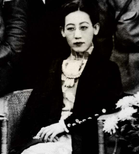 Aisin-Gioro Xianyu (Yoshiko Kawashima)